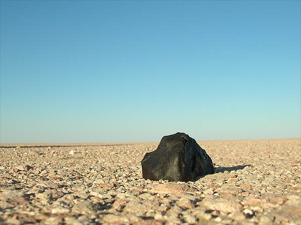 Rub' al-Khali 022 (filed name), Ash Sharqiyah, Saudi Arabia. Meteorite find in situ on desert pavement surface (chondrite pending formal classification, 408.50g)